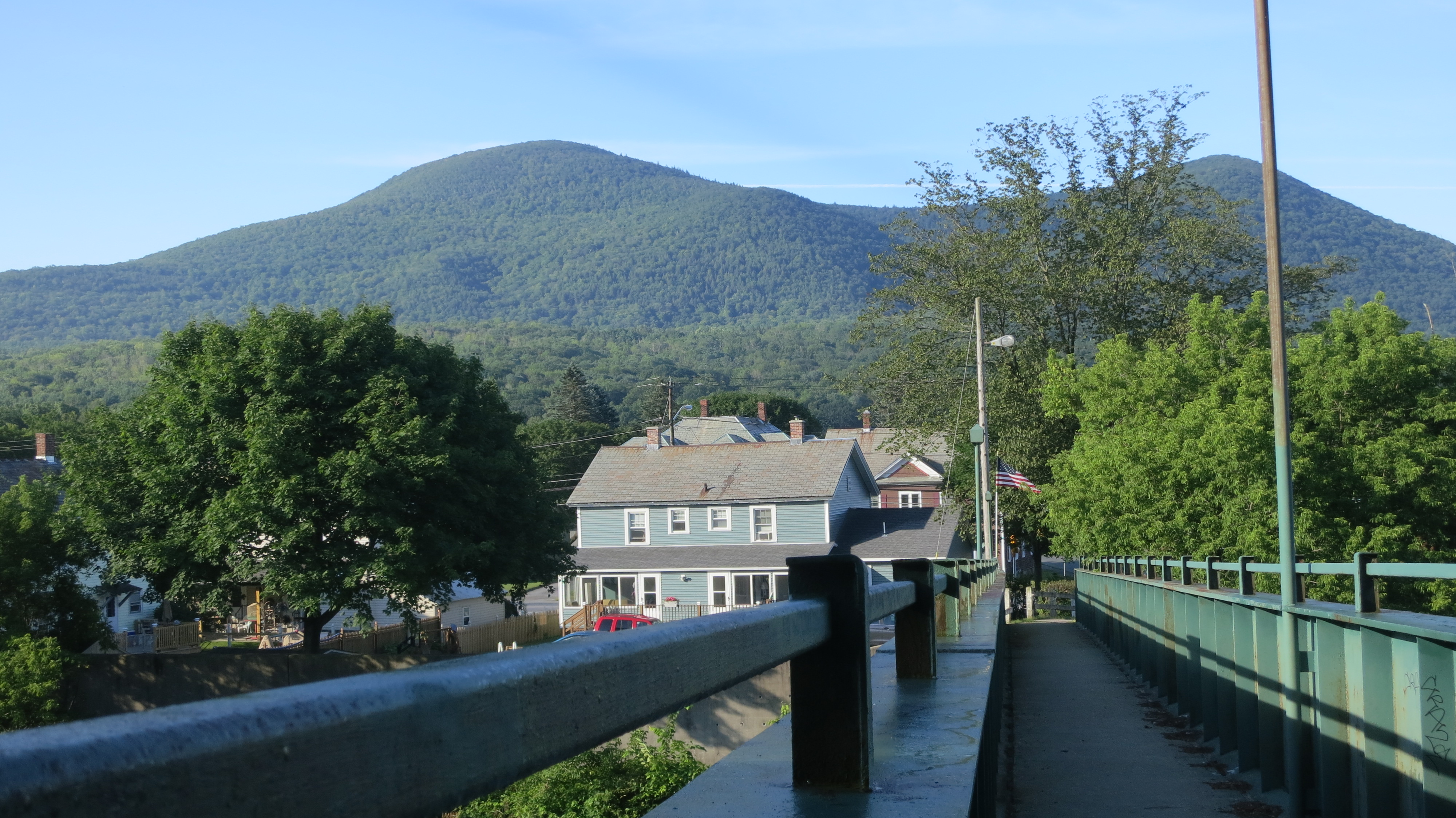 This view from the north was taken on the Applachian Trail's bridge crossing the Hoosic River in North Adams.